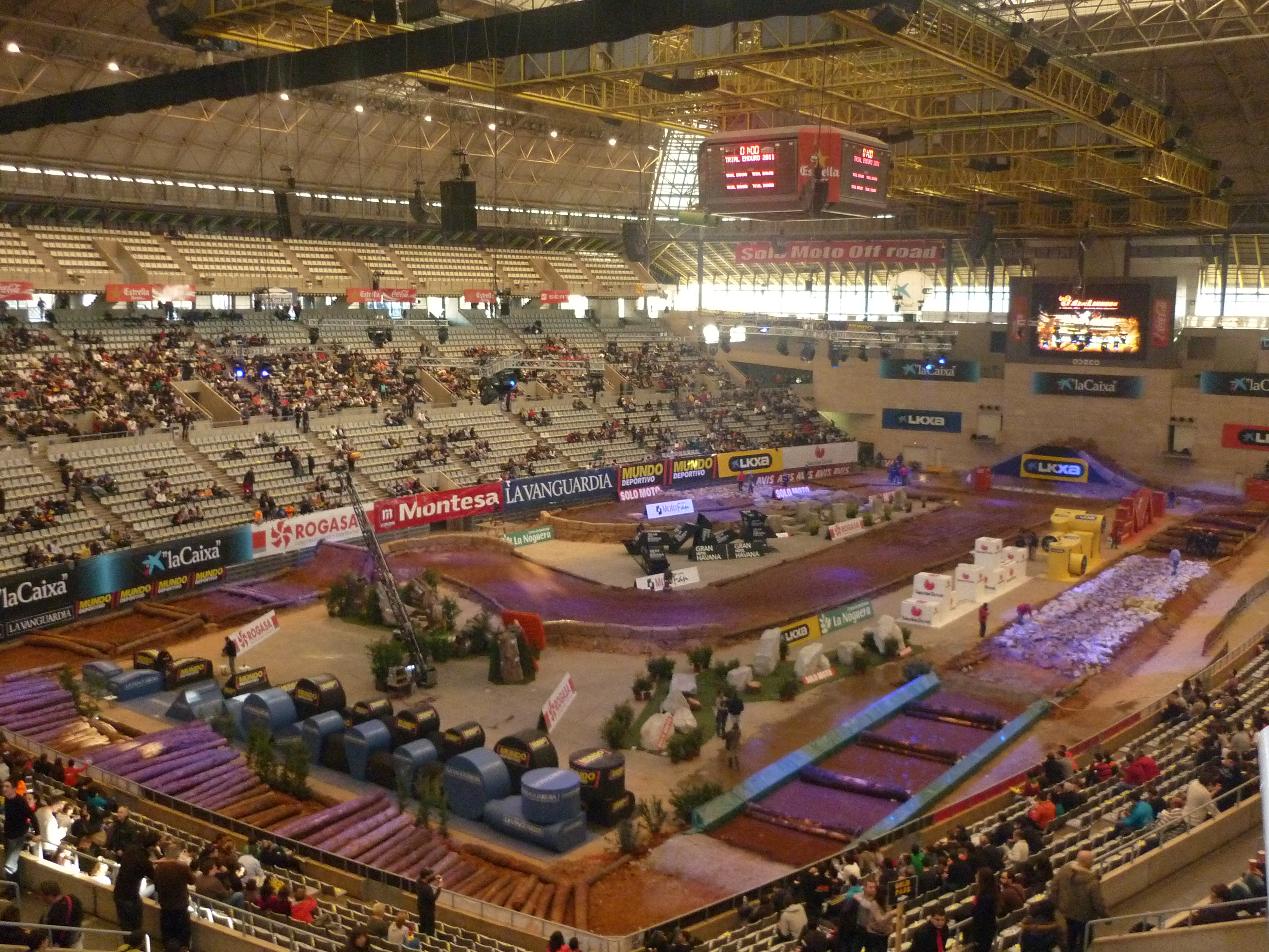 Palau Sant Jordi (Barcelona, Catalonia) during the XXXIV Trial Indoor de Barcelona.